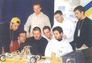 EPSA Founders